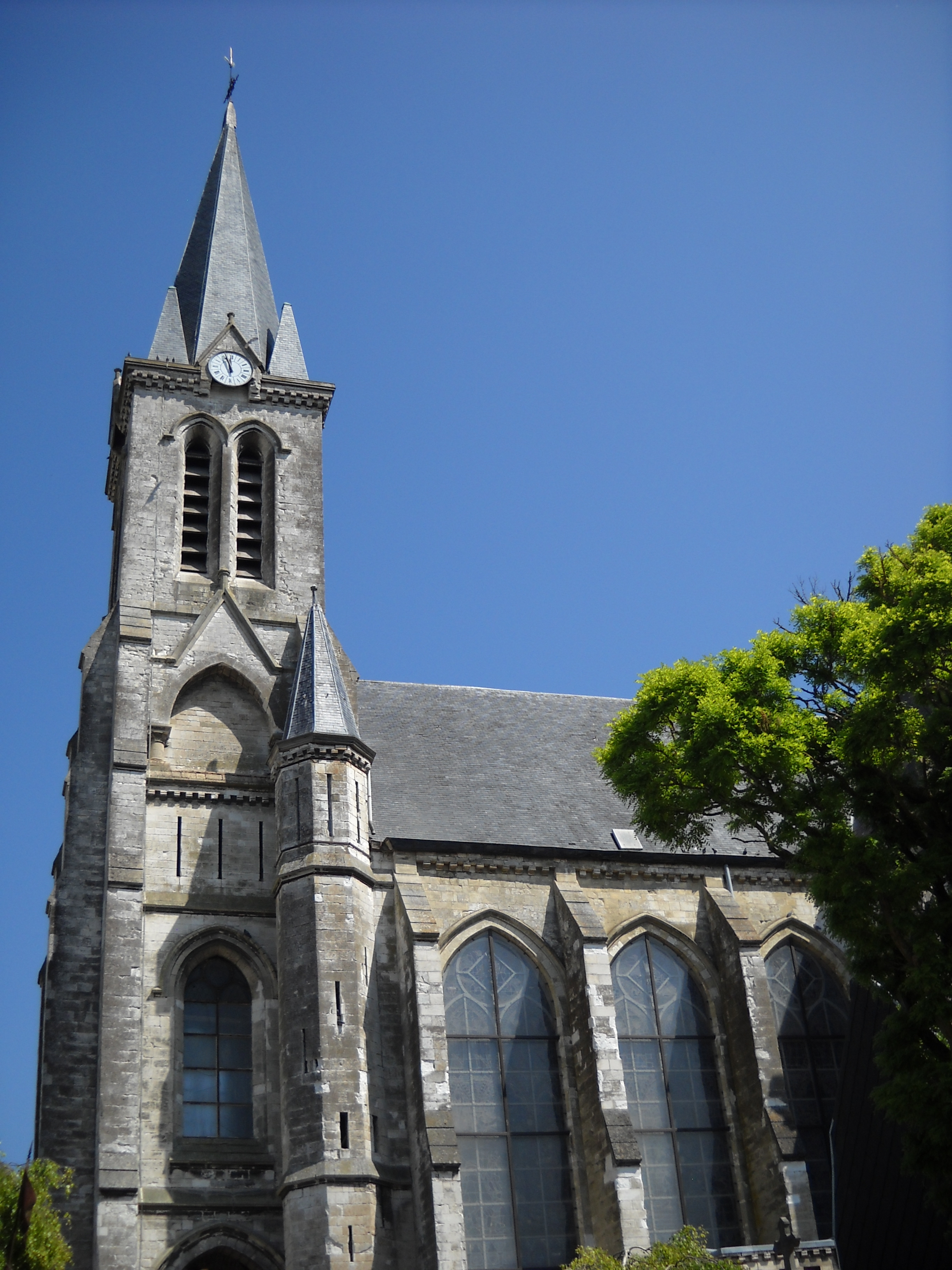 Outside St.Peter's church, in Bouvines, Nord, France.